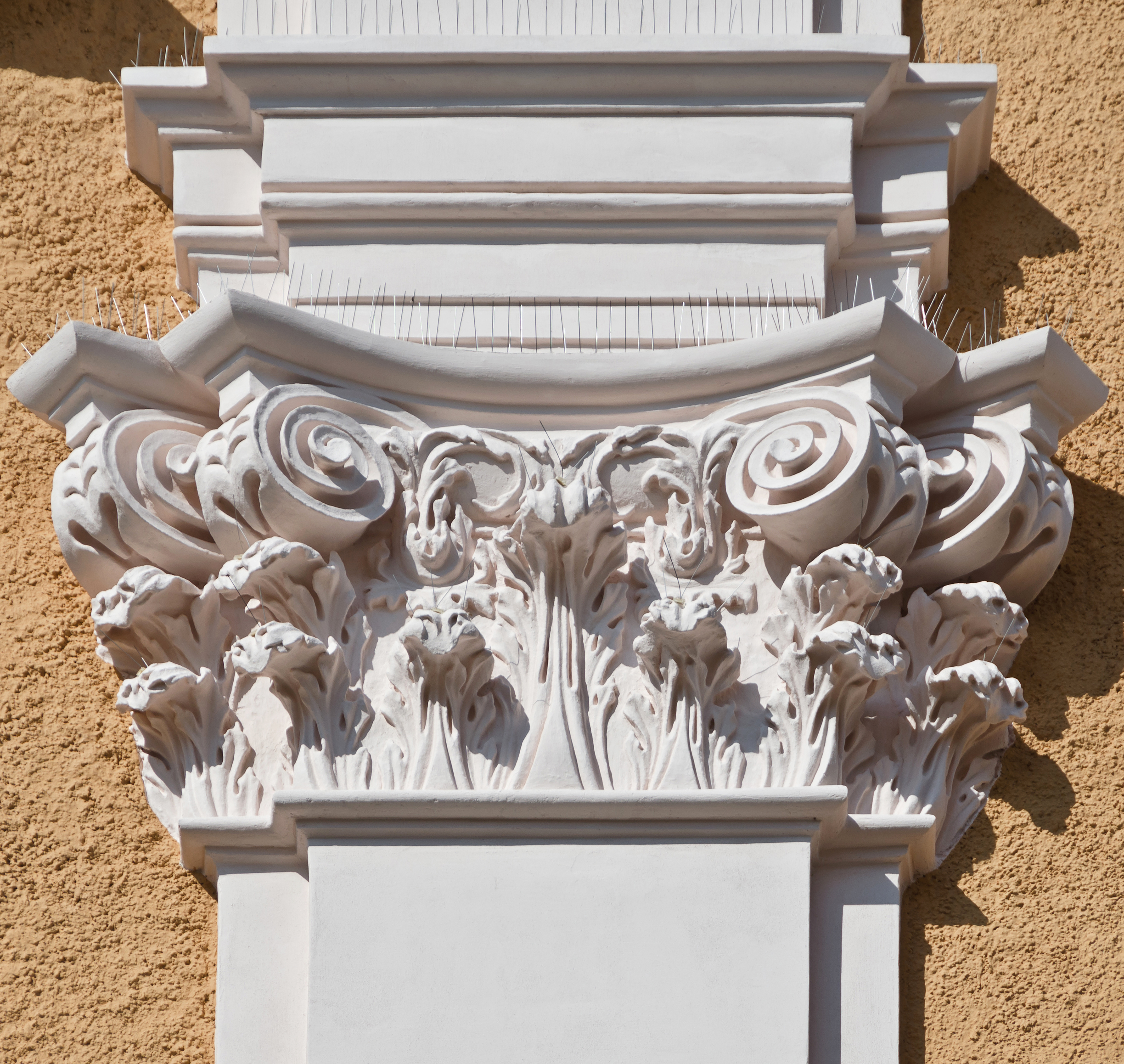 Bishops Palace in Nysa